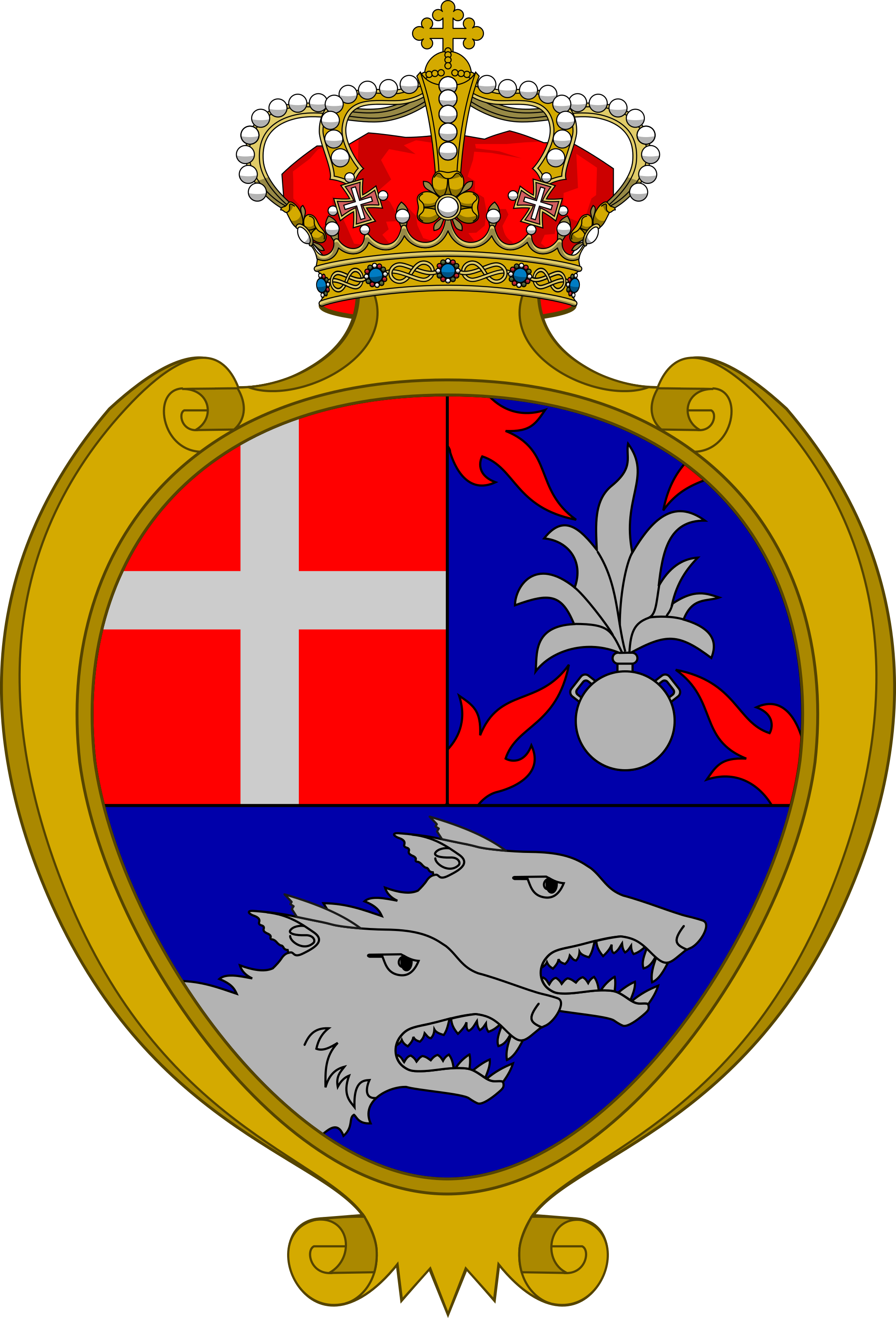 Coat of Arms of the 77th Infantry Regiment "Lupi di Toscana", Royal Italian Army, 1939 - - Royal Crown by user User: F l a n k e r, released to public domain (see File:Crown of Savoy.svg)